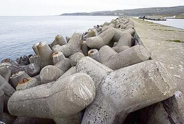 Tetrapode